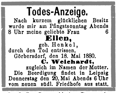 Death announcement printed in The Eisenacher Zeitung (newspaper of Eisenach Germany) in 1880. Scanned from a photocopy provided by the Stadtarchiv Eisenach (Eisenach City Archive). The copyright has passed into the public domain.